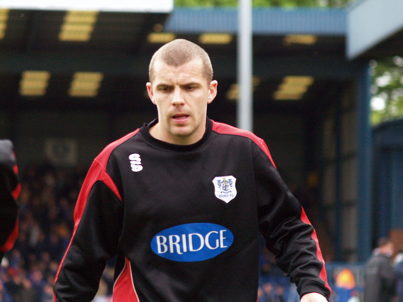 Bury FC midfielder Stephen Dawson during the warm up at Gigg Lane, home of Bury Football Club prior to the Bury vs. Shrewsbury Town game. Sunday 10th May 2009